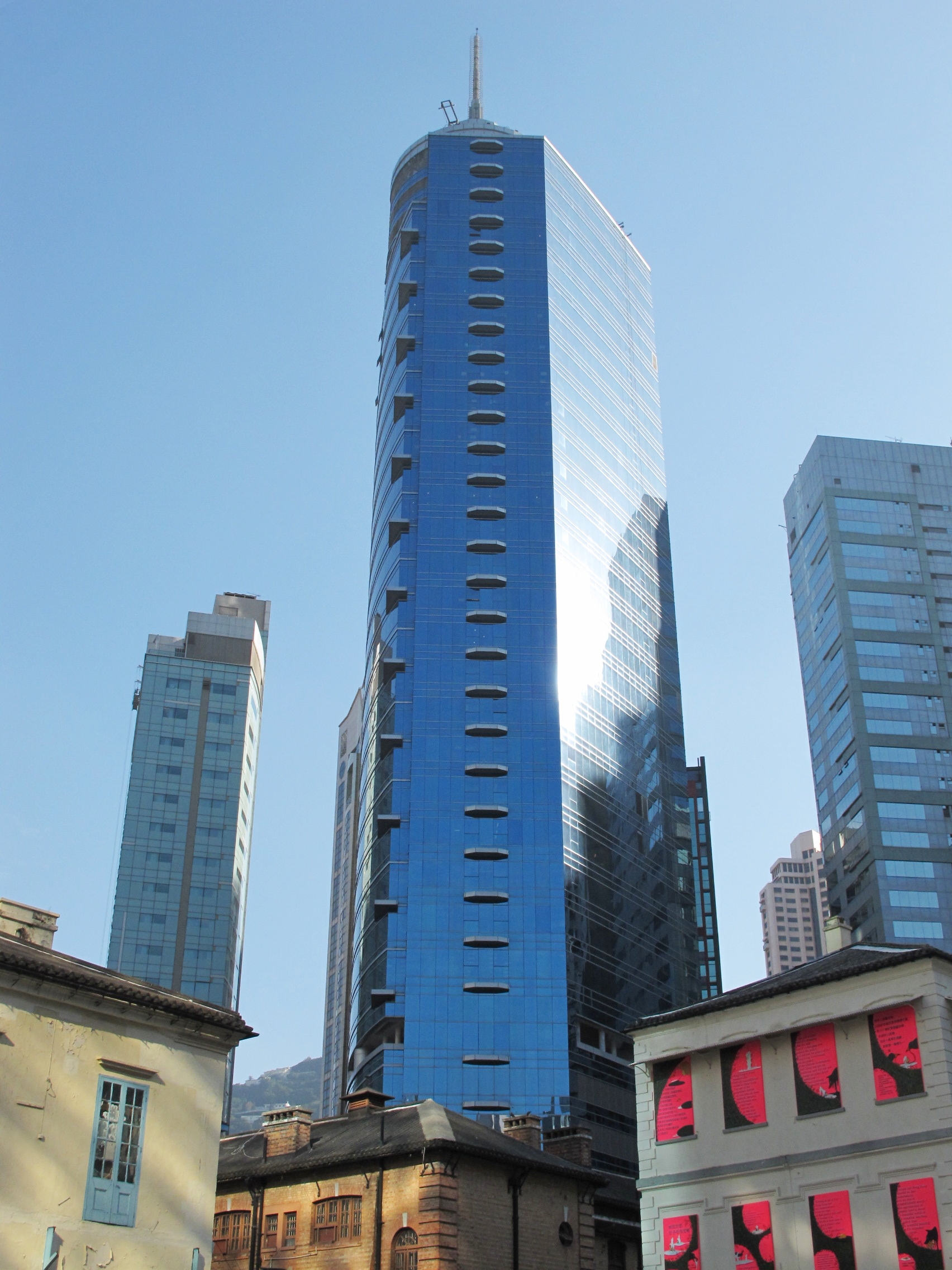 The Centrium